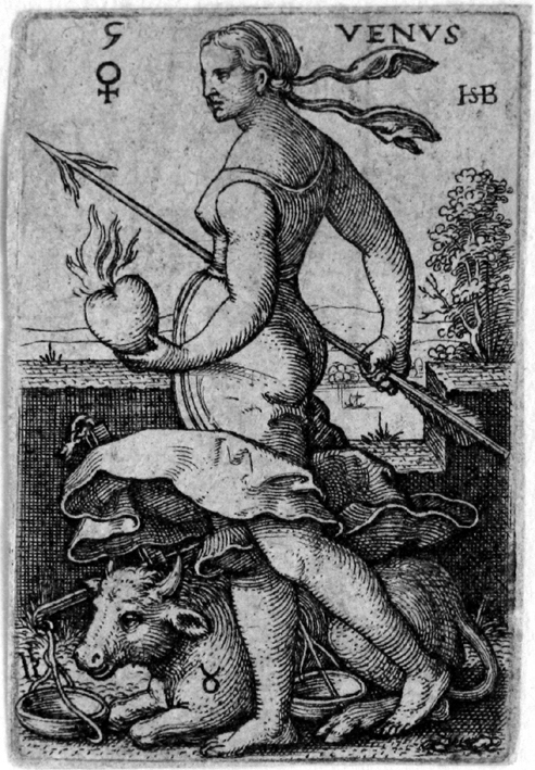 Beham, (Hans) Sebald (1500-1550): Venus, from The Seven Planets with the Signs of the Zodiac, 1539 (Bartsch 118; Pauli, Holl. 120), first state of four, trimmed to the platemark, generally in very good condition.